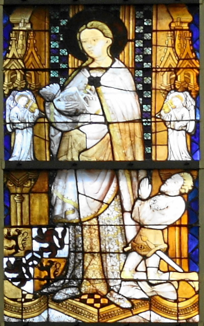 "Bergischer Dom" in Odenthal-Altenberg, Germany. Gothic stained-glass window in the west fassade. Detail: Holy Mary with William II. Duke of Berg (bottom-right), sponsor of the window.